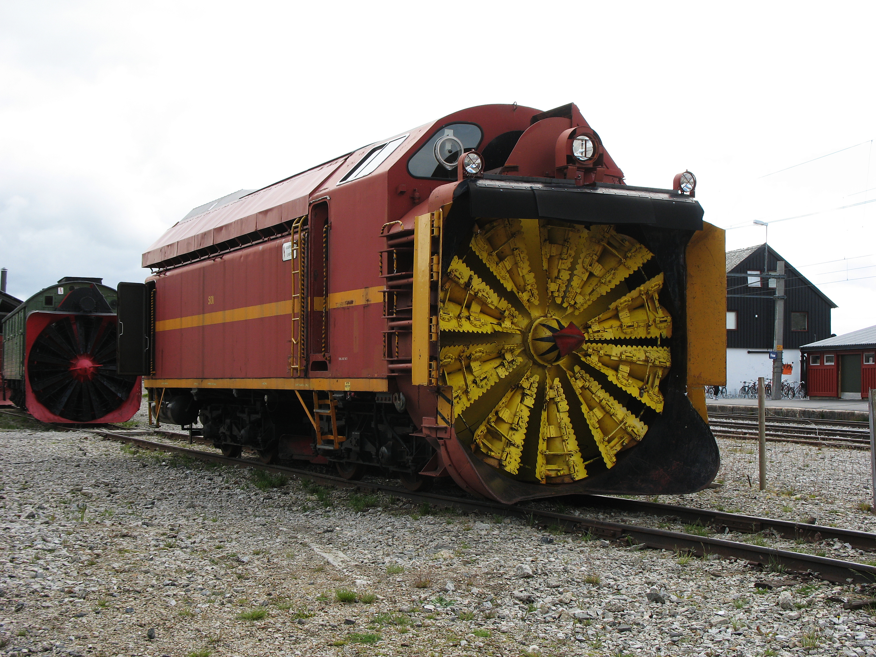 Diesel powered snowblower of the Norwegian rail manufactured by Henschel. Seen in Finse, Norway.